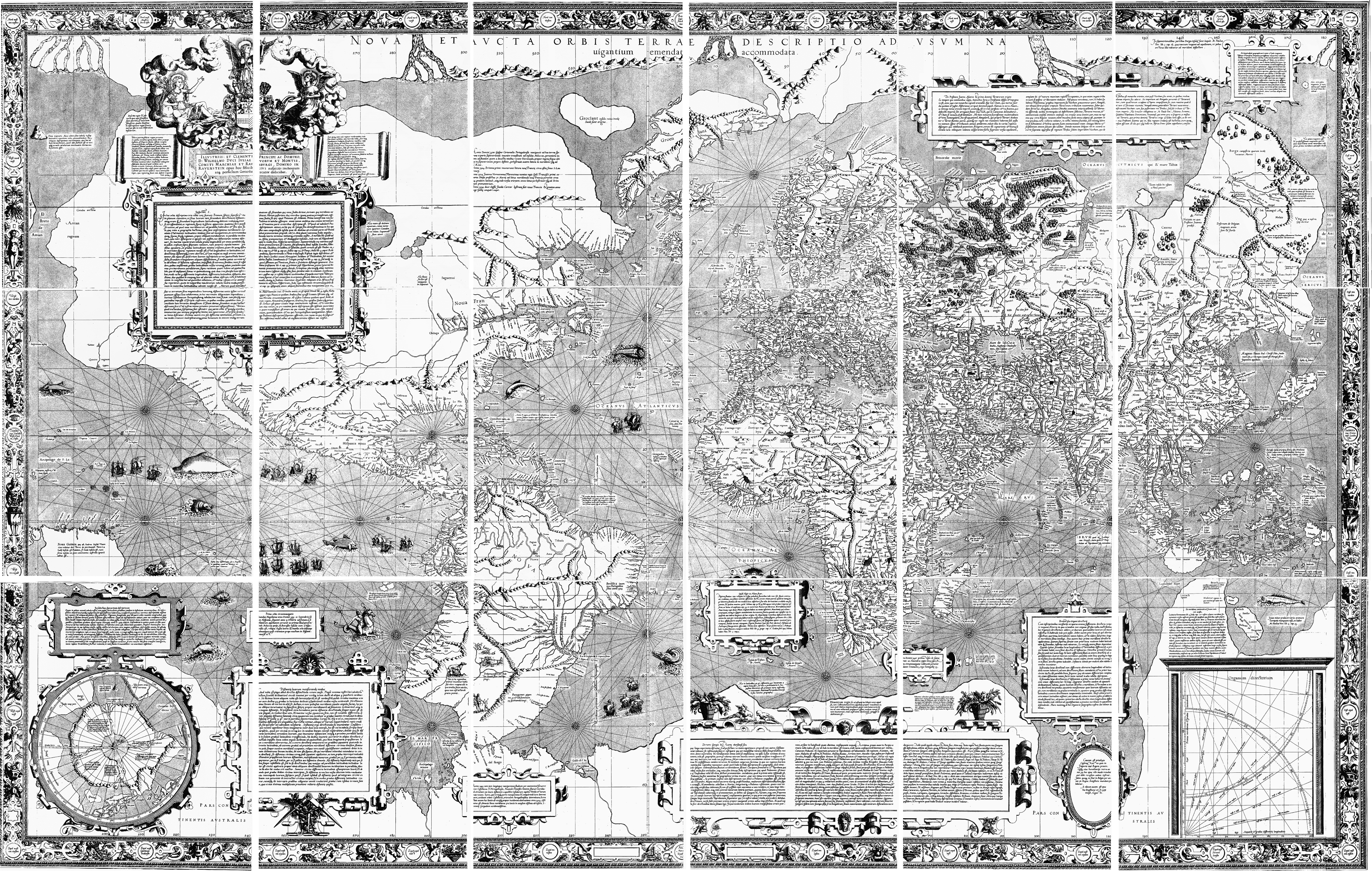 Mercator 1569 world map composite of all 18 sheets